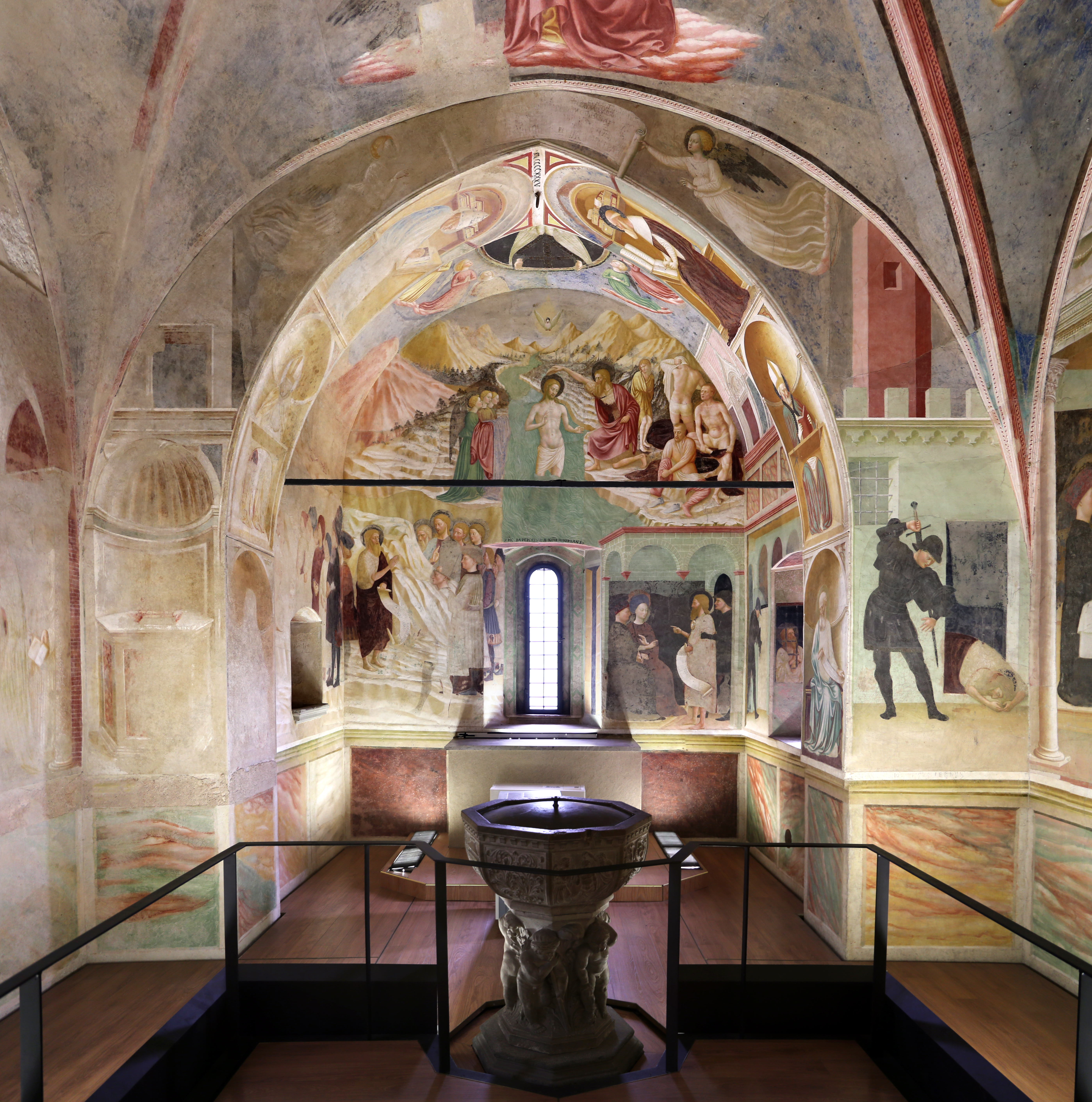 Baptistry (Castiglione Olona)